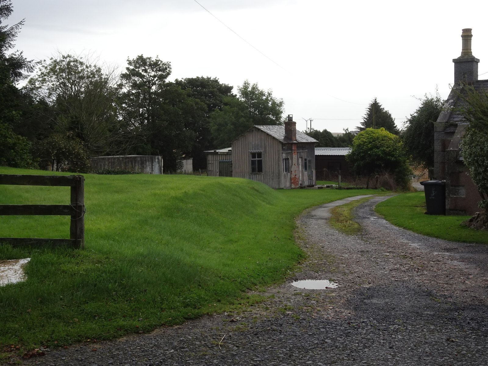 King Edward railway station (site), AberdeenshireOpened in 1860 by the Banff Macduff & Turriff Extension Railway, later part of the Great North of Scotland Railway, on the line from Inveramsay to Macduff, this station closed to passengers in 1951 and completely in 1961. View east towards the former forecourt, Plaidy and Inveramsay. The wooden station building appears to be a remarkable survivor. The track was to the left of it.